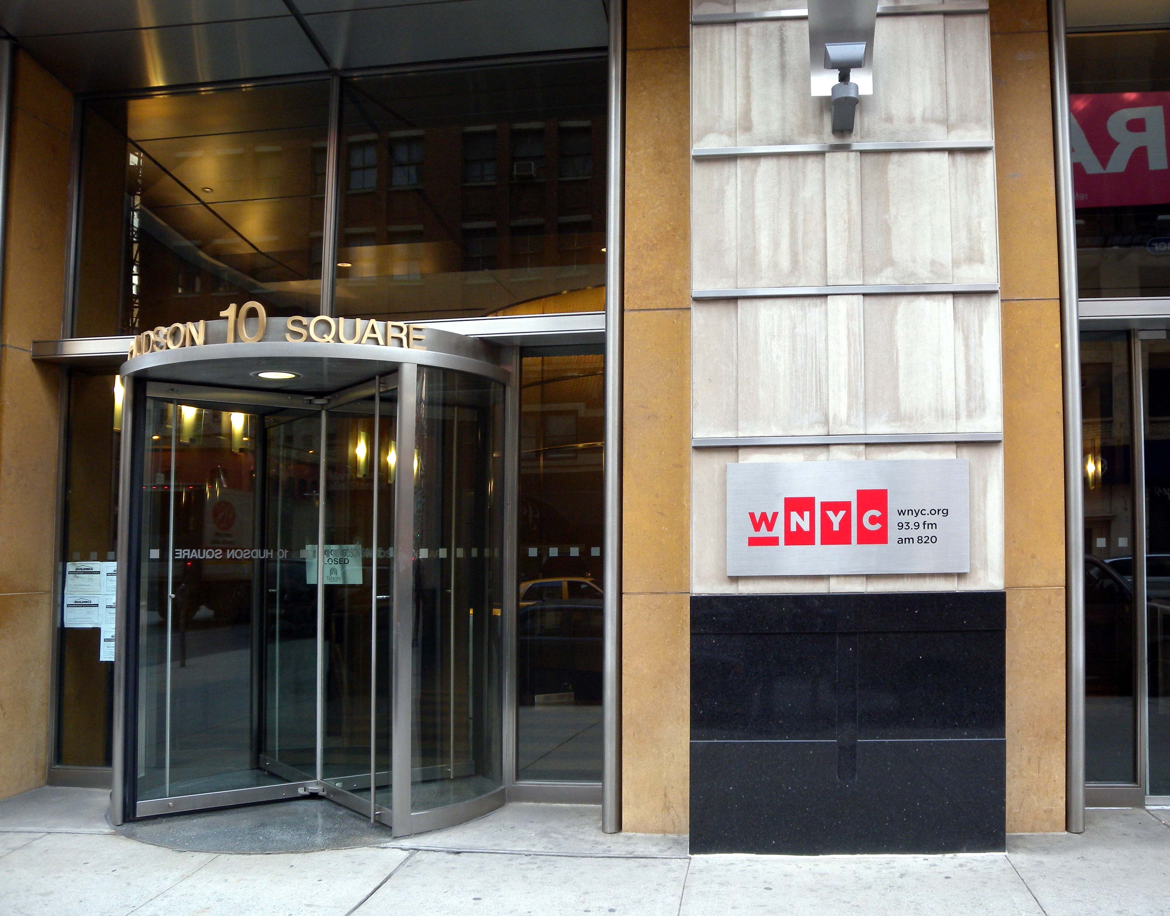 Looking east across Varick Street at 160 Varick, just north of Canal St and new home of WNYC Radio, on a cloudy afternoon.